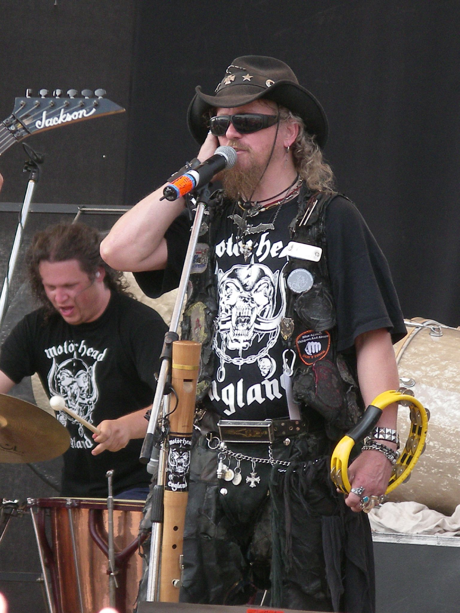 German symphonic metal band Haggard at the 2006 Evolution Festival in Toscolano-Maderno, Italy. Tenor singer Fiffi Fuhrmann.